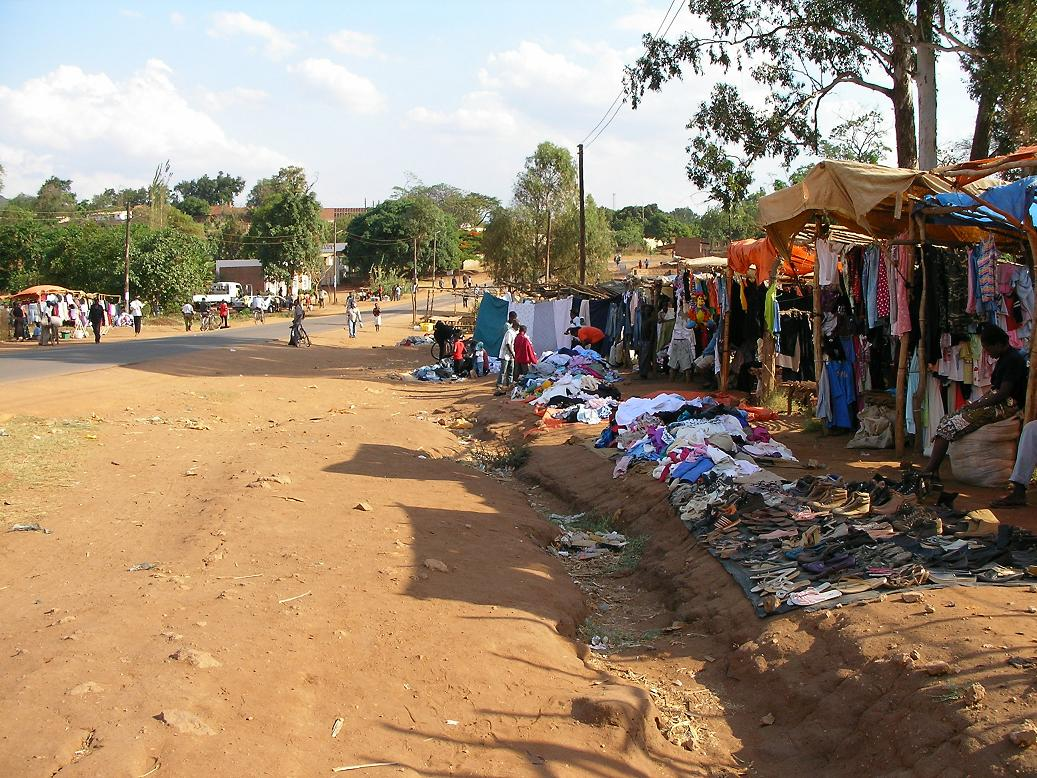 Clothing sellers in Chipata, Zambia. Camera is pointing south. Altimeter reading 1134 meters.